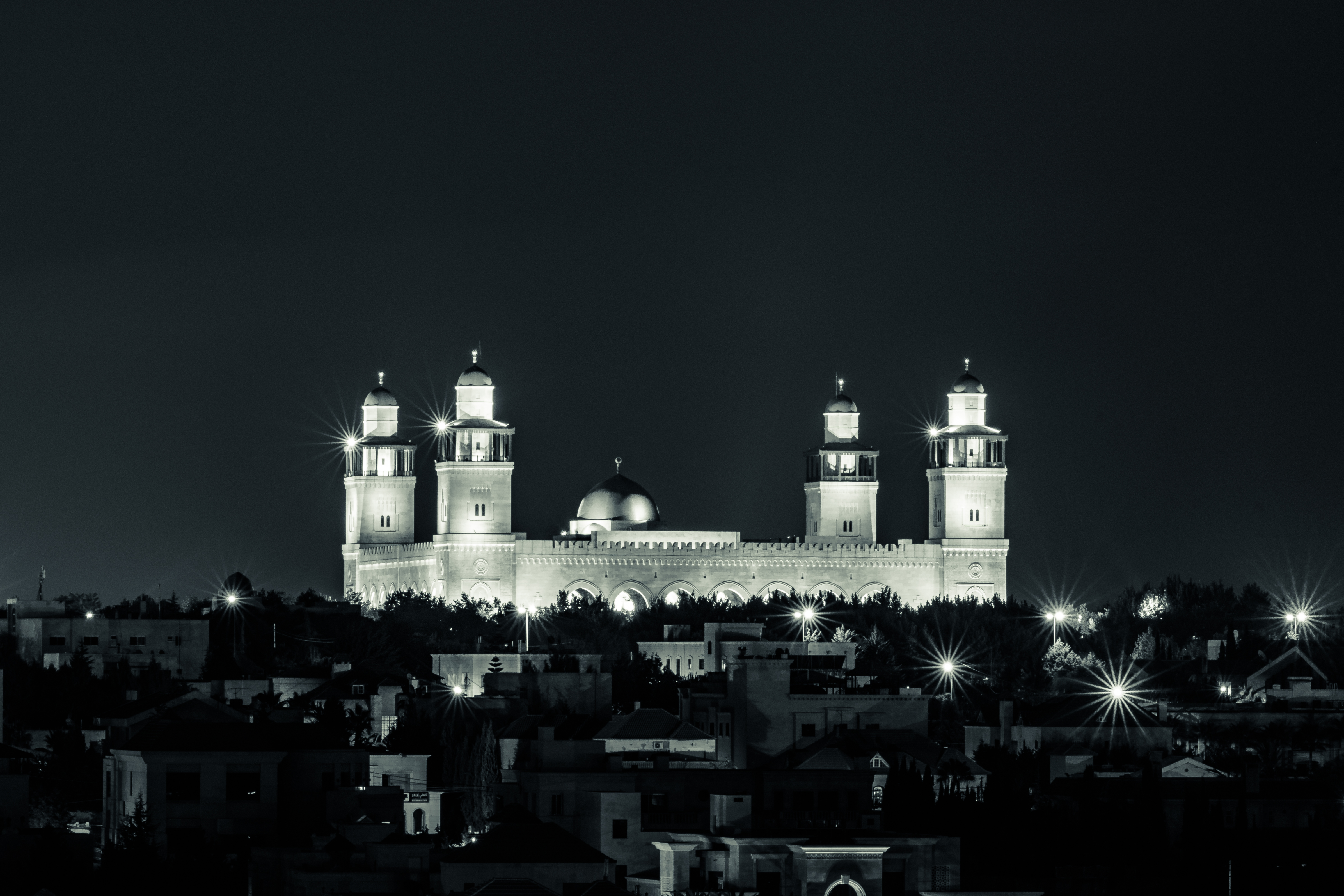 King Hussein Mosque in a gorgeous black and white theme.